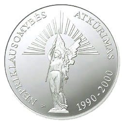 50 litas coin issued to mark the 10th Anniversary of the reestablishment of Independence Silver Ag 925 Quality proof Diameter 38.61 mm Weight 28.28 g The words on the edge of the coin: LAISVE - AMZINOJI TAUTOS VERTYBE (FREEDOM IS AN ETERNAL WEALTH OF A NATION) The designer of the coin is Gediminas Karalius Mintage 3,000 pcs Issued 2000 Distribution terminated 2005 Distributed 2,698 pcs The coin was minted at the state enterprise Lithuanian Mint.